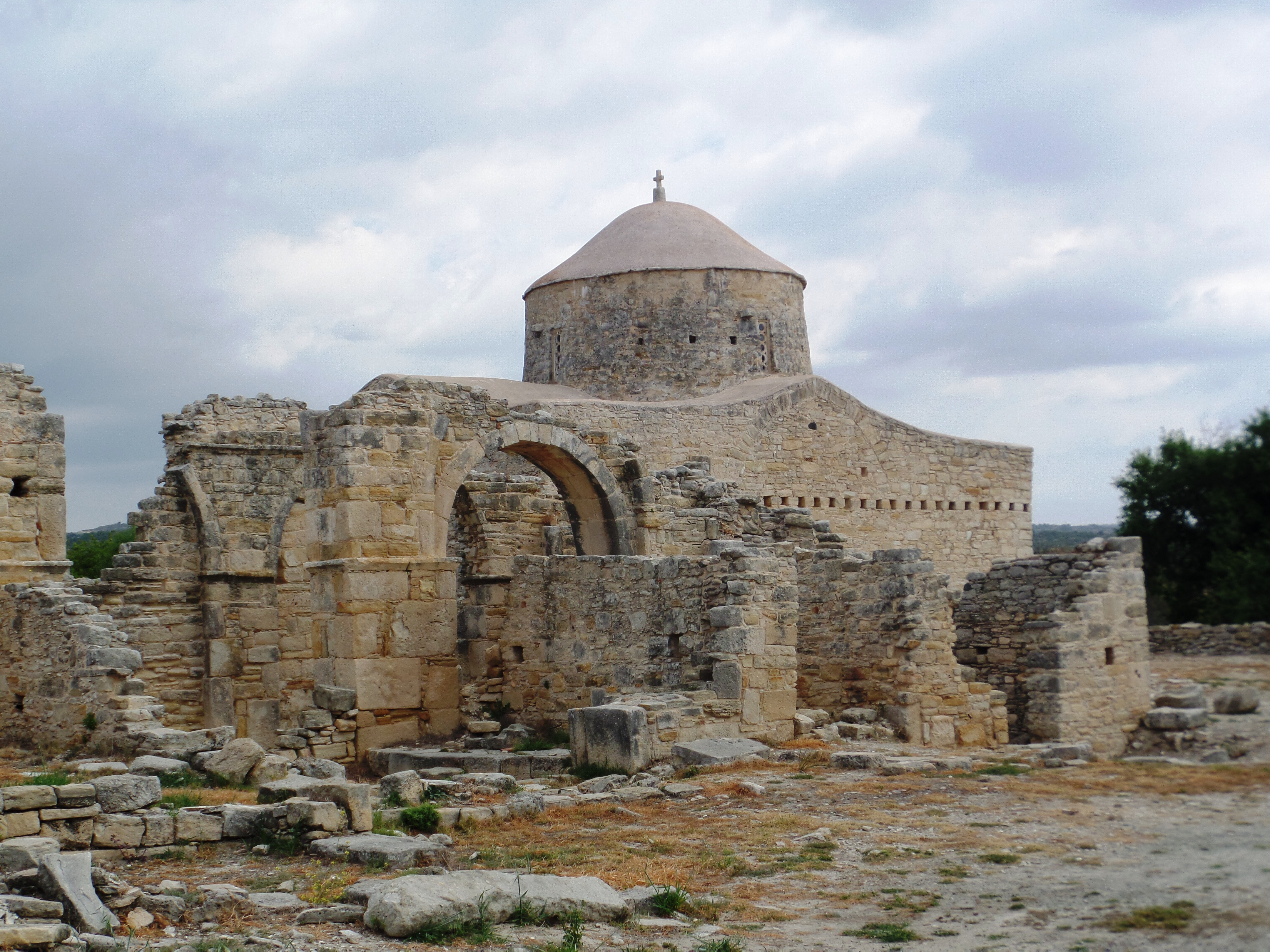 Holy Cross monastery at Anogyra.